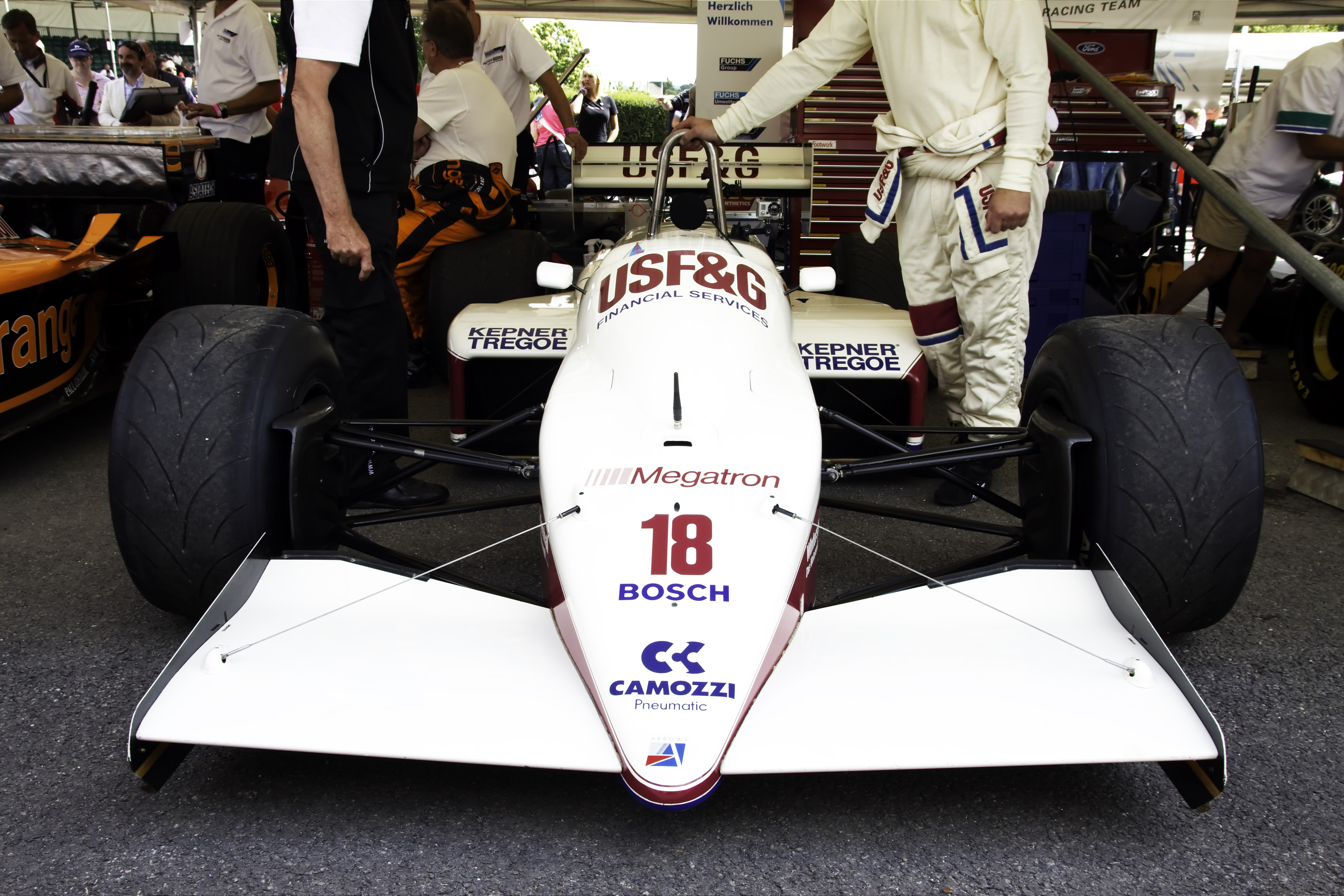 Arrows-Megatron A10B